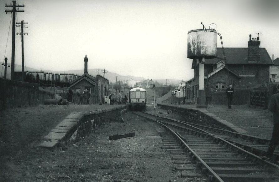 Abersychan & Talywain Station showing BR (Derby) Suburban 3-car dmu (later Class 116) Nos.W50838 (116/2), W59376 (175), W50891 (116/1)on the "Afon Llwyd" railtour, 04/67. Scanned from photograph taken on a Kowa SET camera.